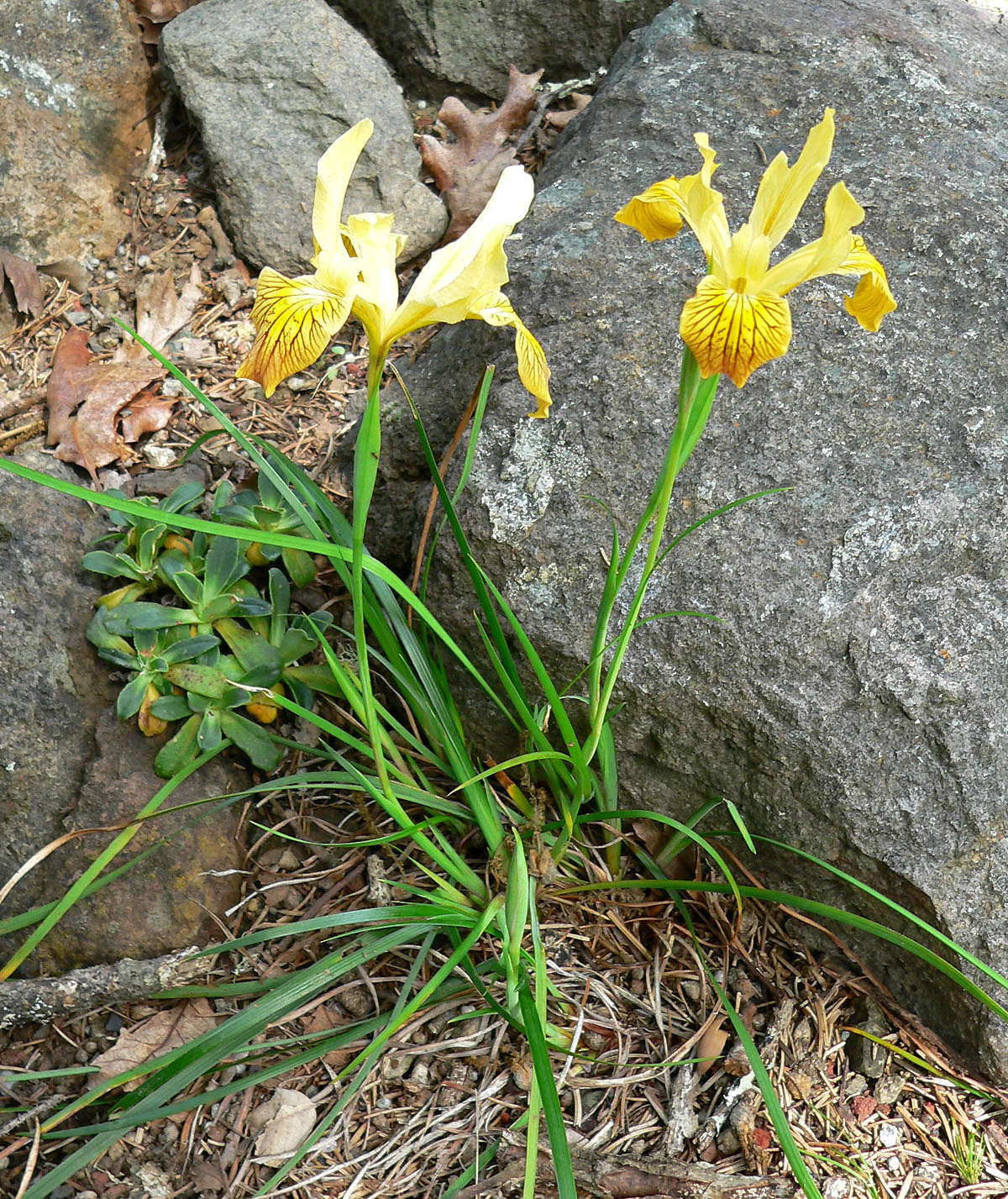 Photo of Iris innominata at the Regional Parks Botanic Garden, Berkeley, California